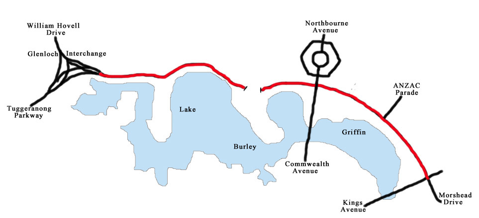 Parkes Way, Canberra, Australia plan